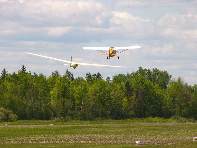 A Champion 7GCAA Citabria towing a Schweizer SGS 1-34 sailplane I took this photo of a Schweizer SGS 1-34 at Kars/Rideau Valley Air Park on 24 May 08.